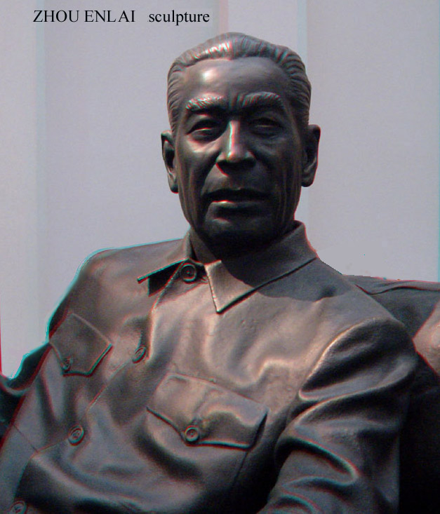 To see this image in 3D stereo use RED-CYAN plastic or paper glasses. Self-made 3d image by Photo-journalist waived to "commons" and or GFDL with this upload.